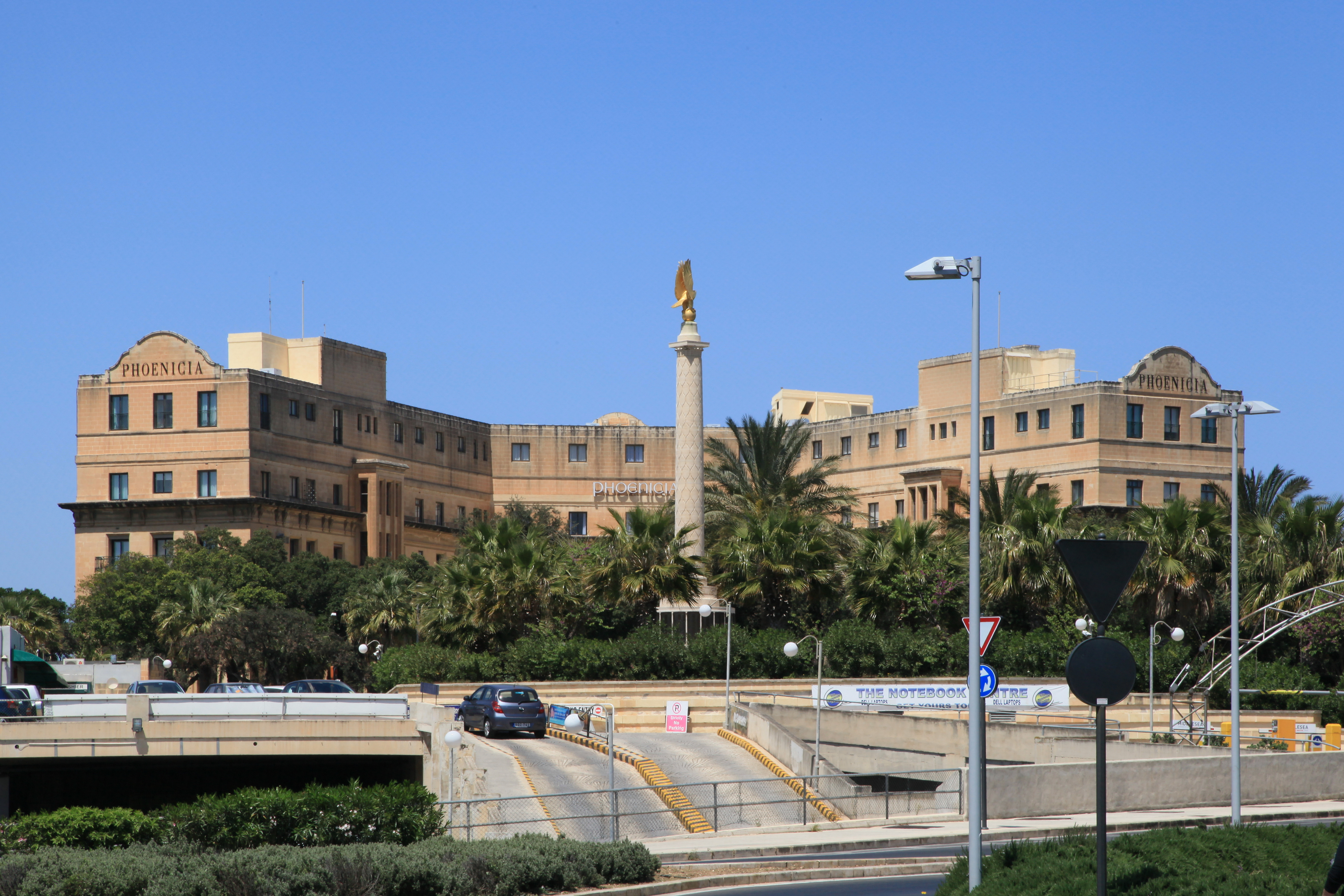 MCP car park, Malta Memorial, and Hotel Phenicia at Vjal-Re Dwardu VII in Floriana, Malta